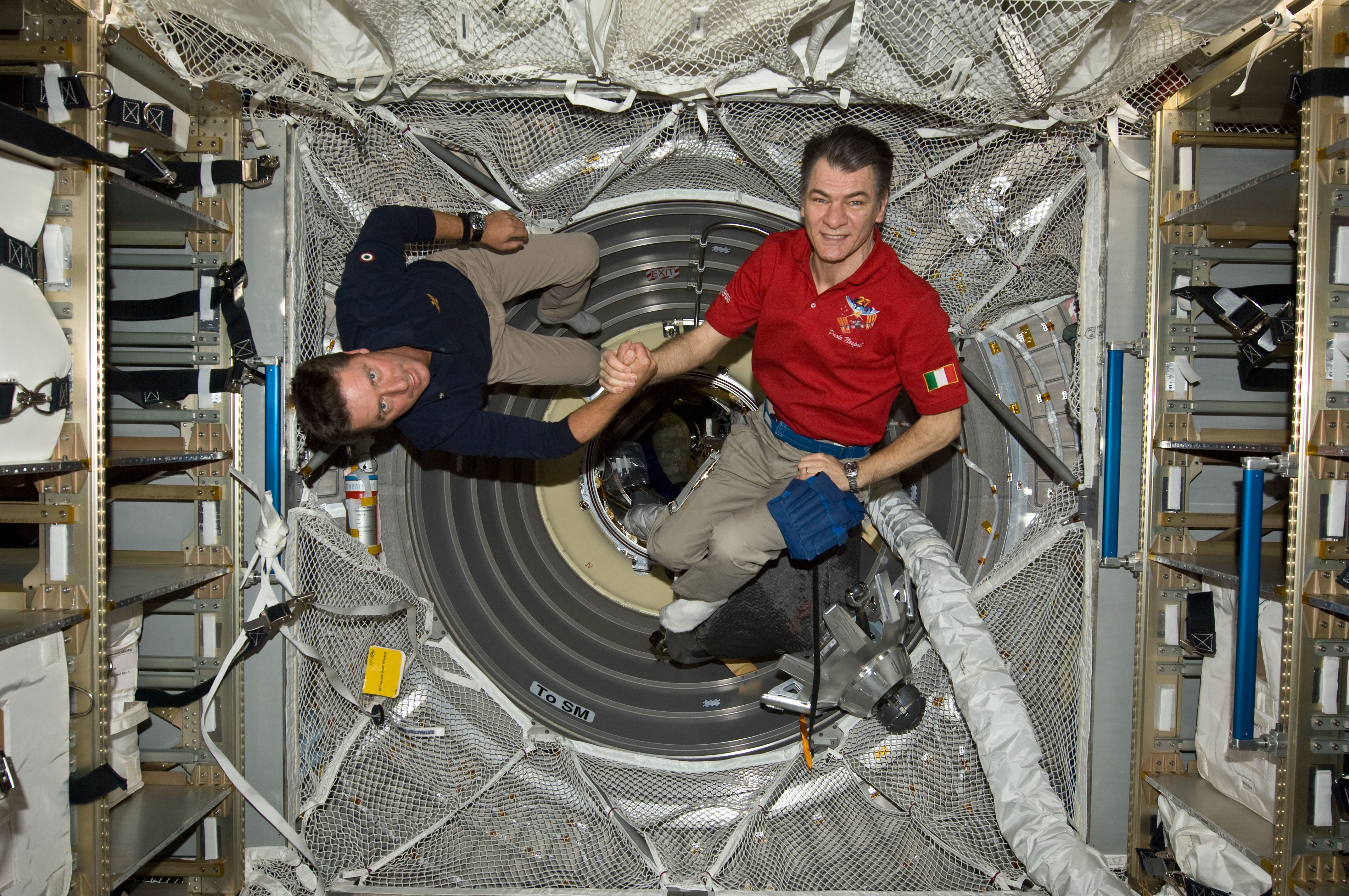 Onboard the International Space Station, European Space Agency astronauts Paolo Nespoli (left) and Roberto Vittori shake hands following an Earth-to-space phone tag-up with Italian President Giorgio Napolitano. Nespoli has been on the station for over five months and is due to return to Earth in less than 24 hours. Vittori is on a 16-day mission of the space shuttle Endeavour, joined by five NASA astronauts. This occasion is the second time two Italian astronauts have been in space together and the first time in the last 15 years.